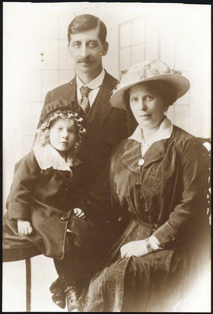 Future wife (Vera) of Alfie Fripp (1913-2013), according to Robert Fripp's diary. (This description is perhaps not correct, "Alfie Fripp and parents" looks more likely).